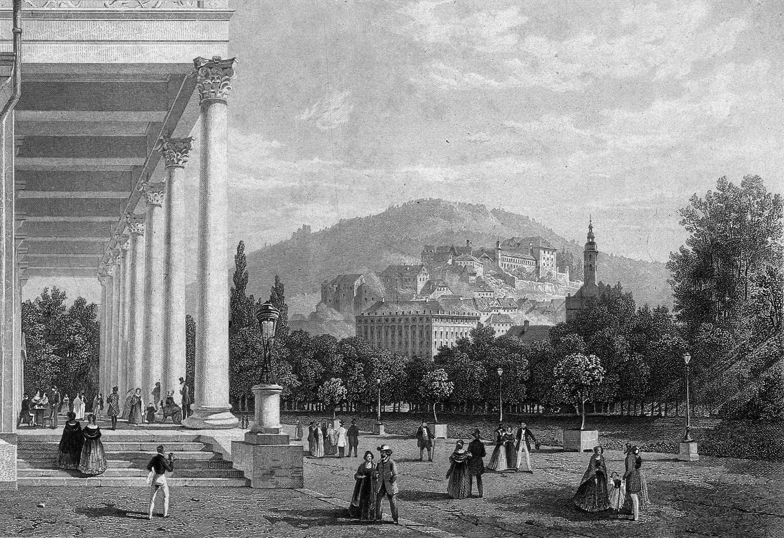 Society meeting place, Baden, Germany, with a view of the town in the background. Line engraving by F. Würthle after K. Lindemann-Frommel. Iconographic Collections Keywords: Friedrich Würthle; Karl August Lindemann-Frommel